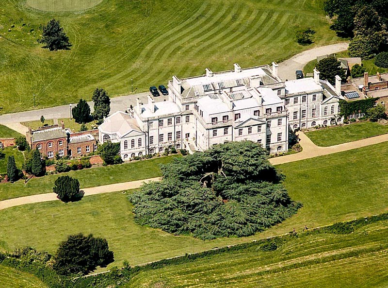 A photo of the popular historical Addington Palace venue in South London, Surrey, United Kingdom